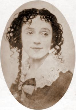 On reverse: "Adah Isaacs Menken from ambrotype [...] at the age of 19."